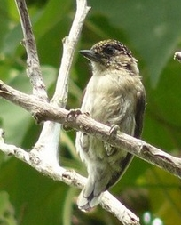 Grayish Piculet. Endemic to the Valle del Cauca of Colombia. Photo taken at Laguna de Sonso Reserve.